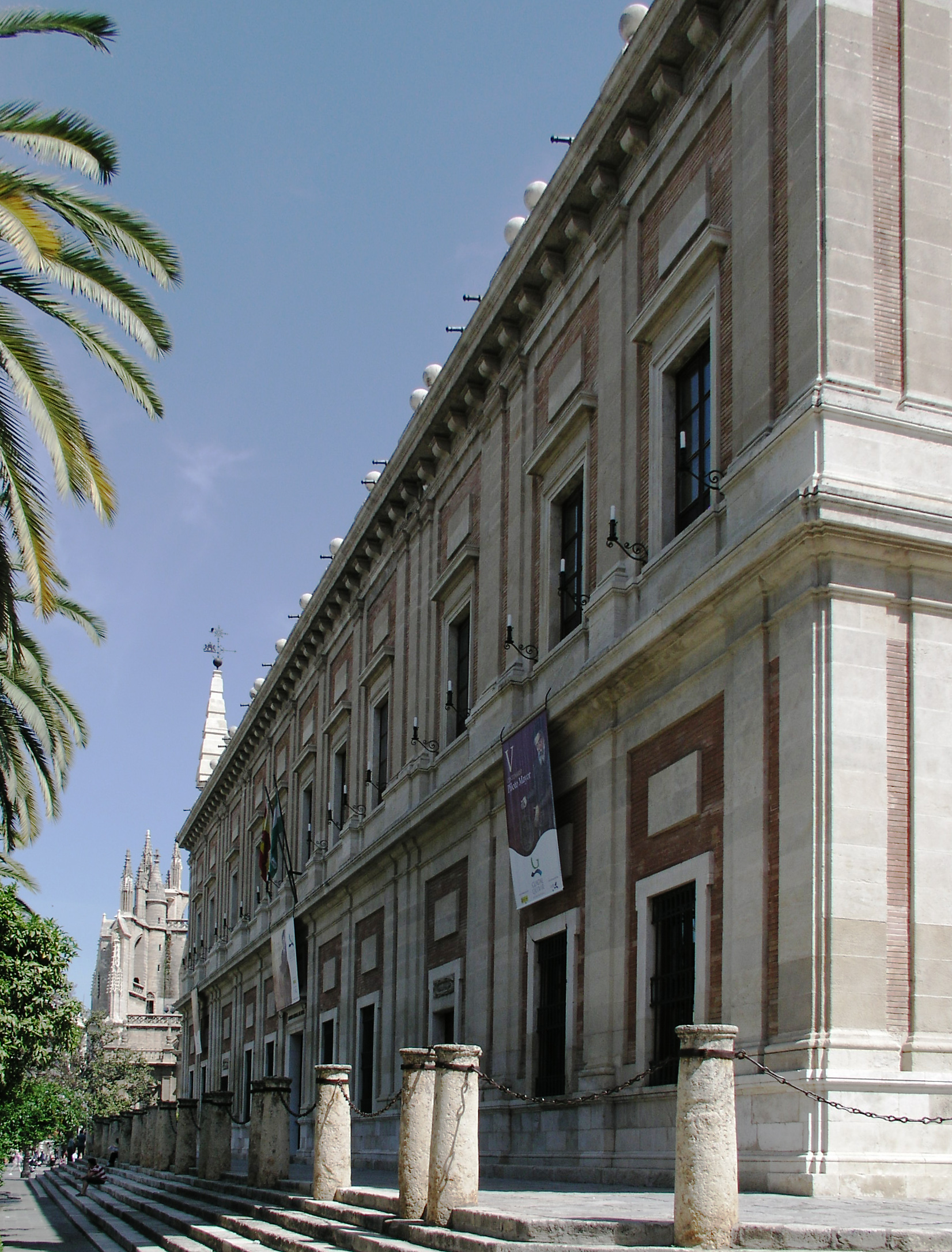 Archivo General de Indias, Seville, Spain. Side view.